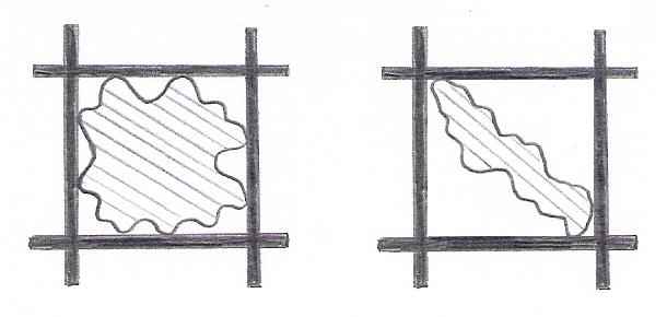 dsequivalent7